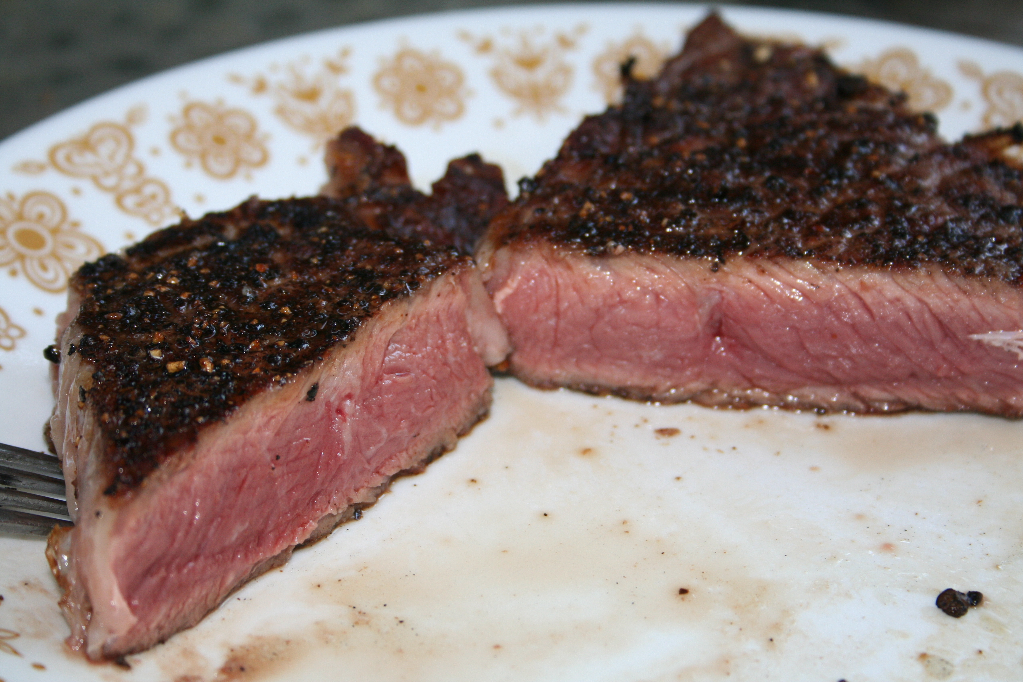 A sea salt and fresh ground pepper seasoned piece of heaven. Delmonico seared to perfection.